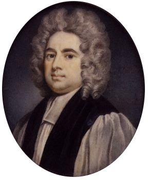 Francis Atterbury (1662-1732), Bishop of Rochester